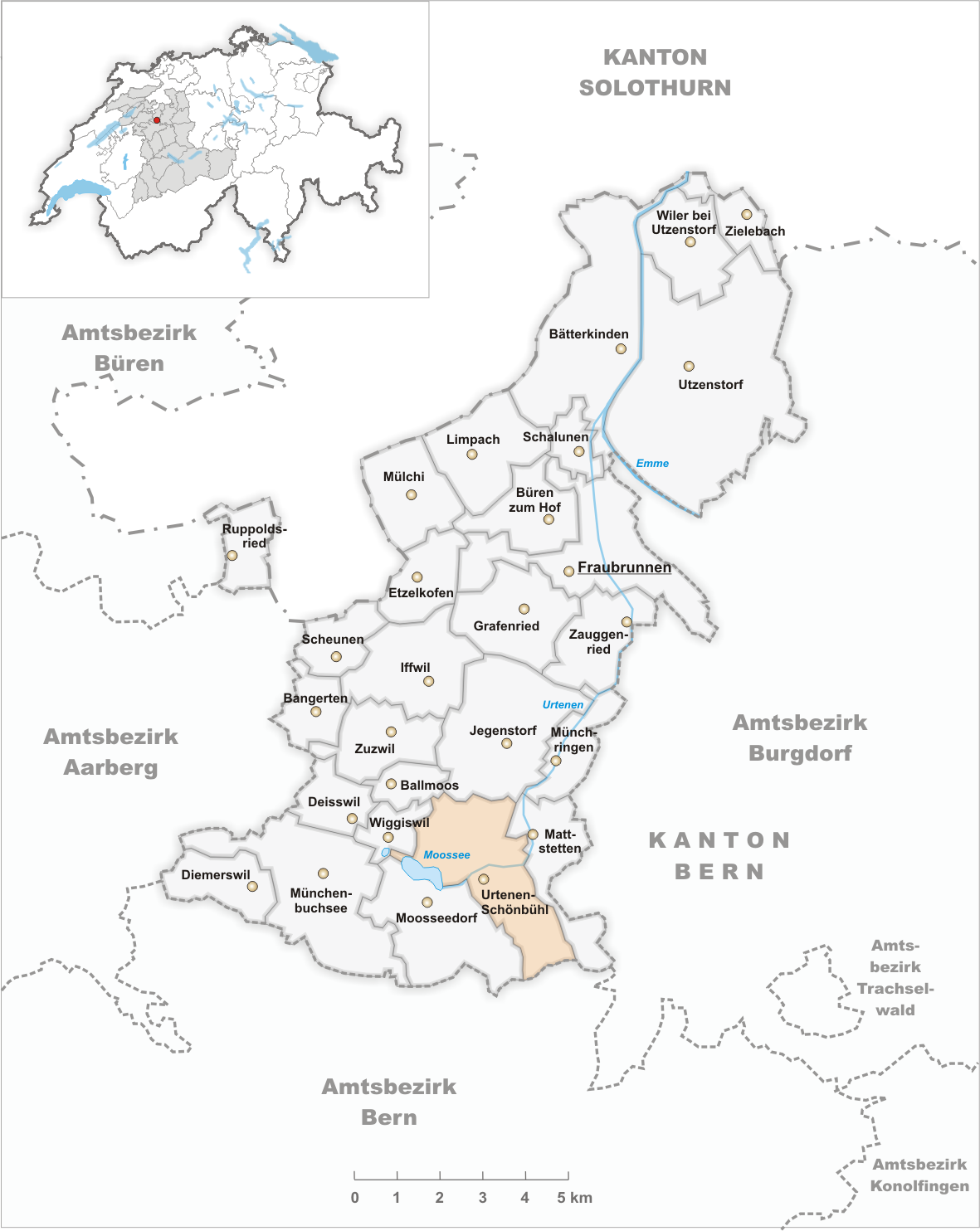 Municipality Urtenen-Schönbühl